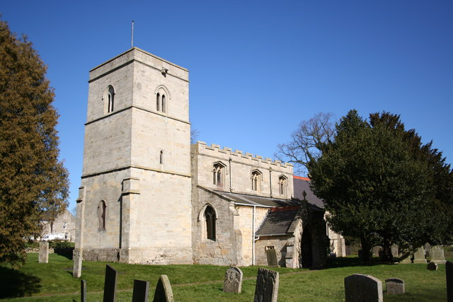 St Mary Magdalen parish church, School Lane, Old Somerby, Lincolnshire, seen from the southwest